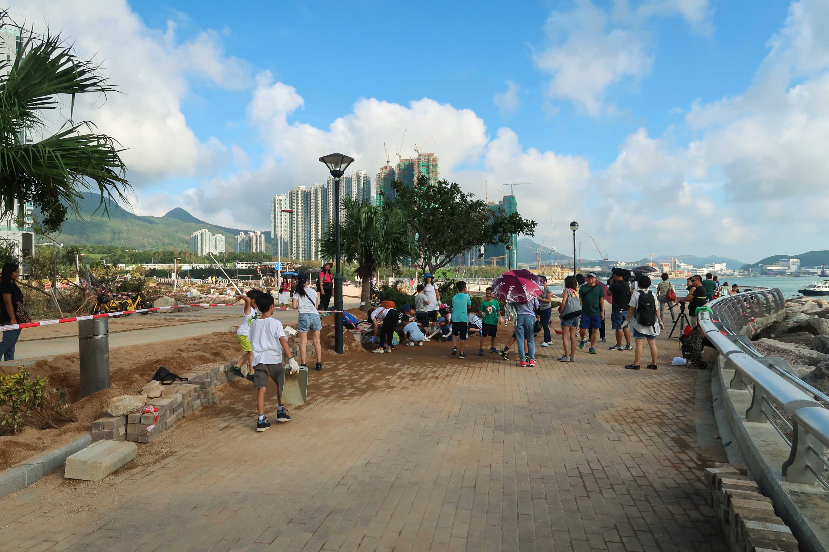 Children clean Tseung Kwan O Waterfront Park after typhoon